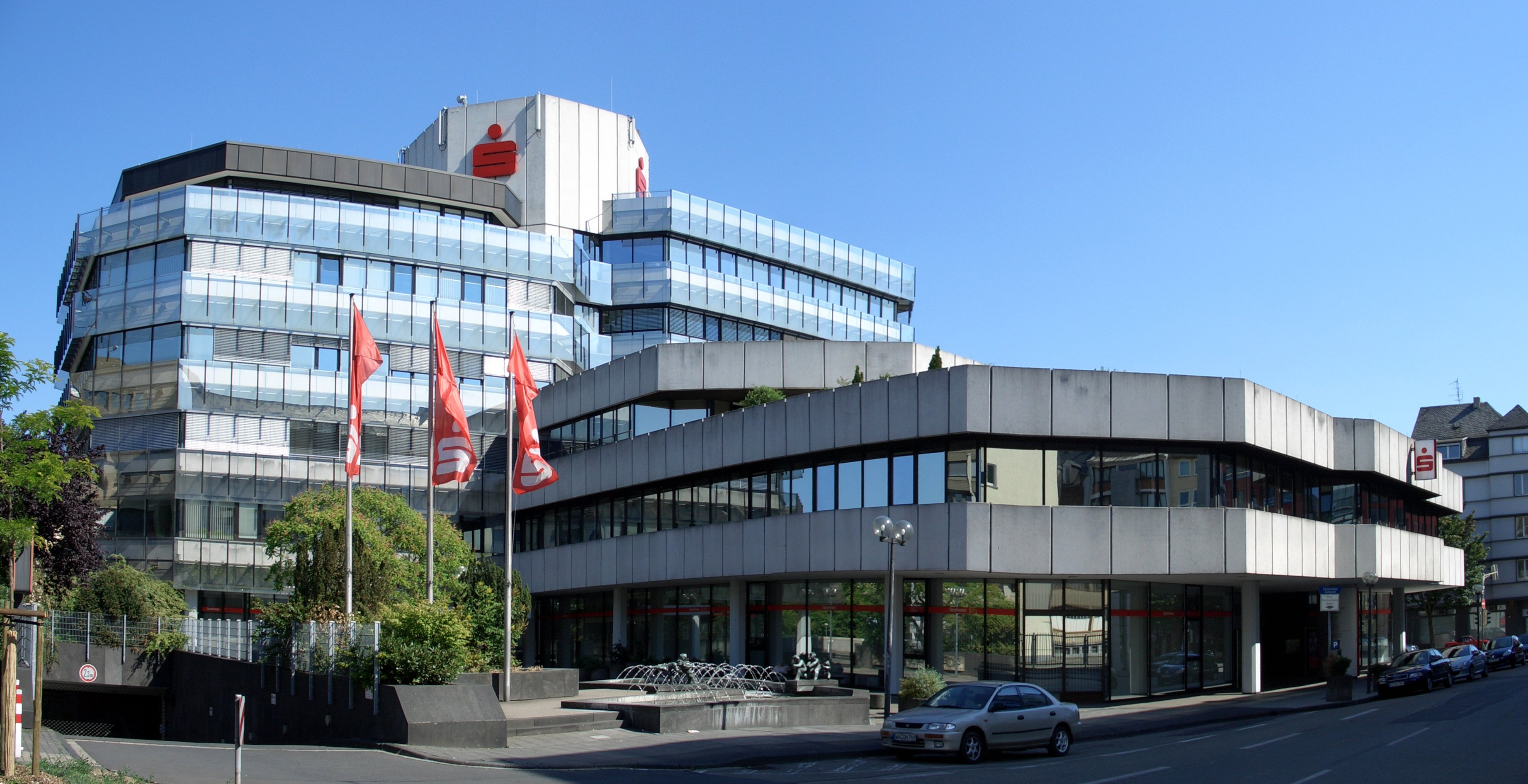 Main building of the Sparkasse Koblenz